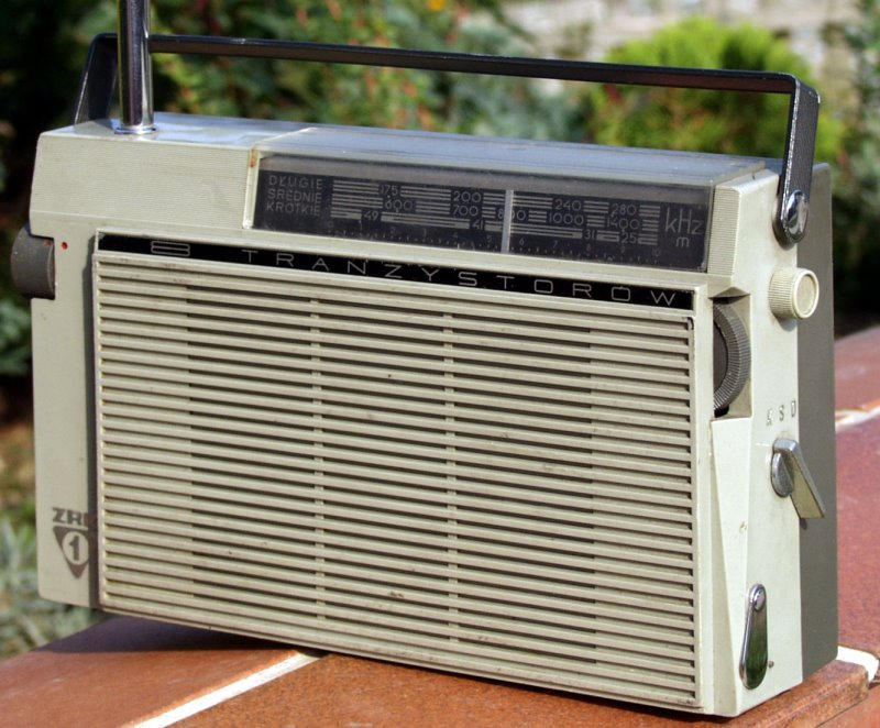 Radio "Guliwer", manufacturer: "ZRK" (Poland), 1965